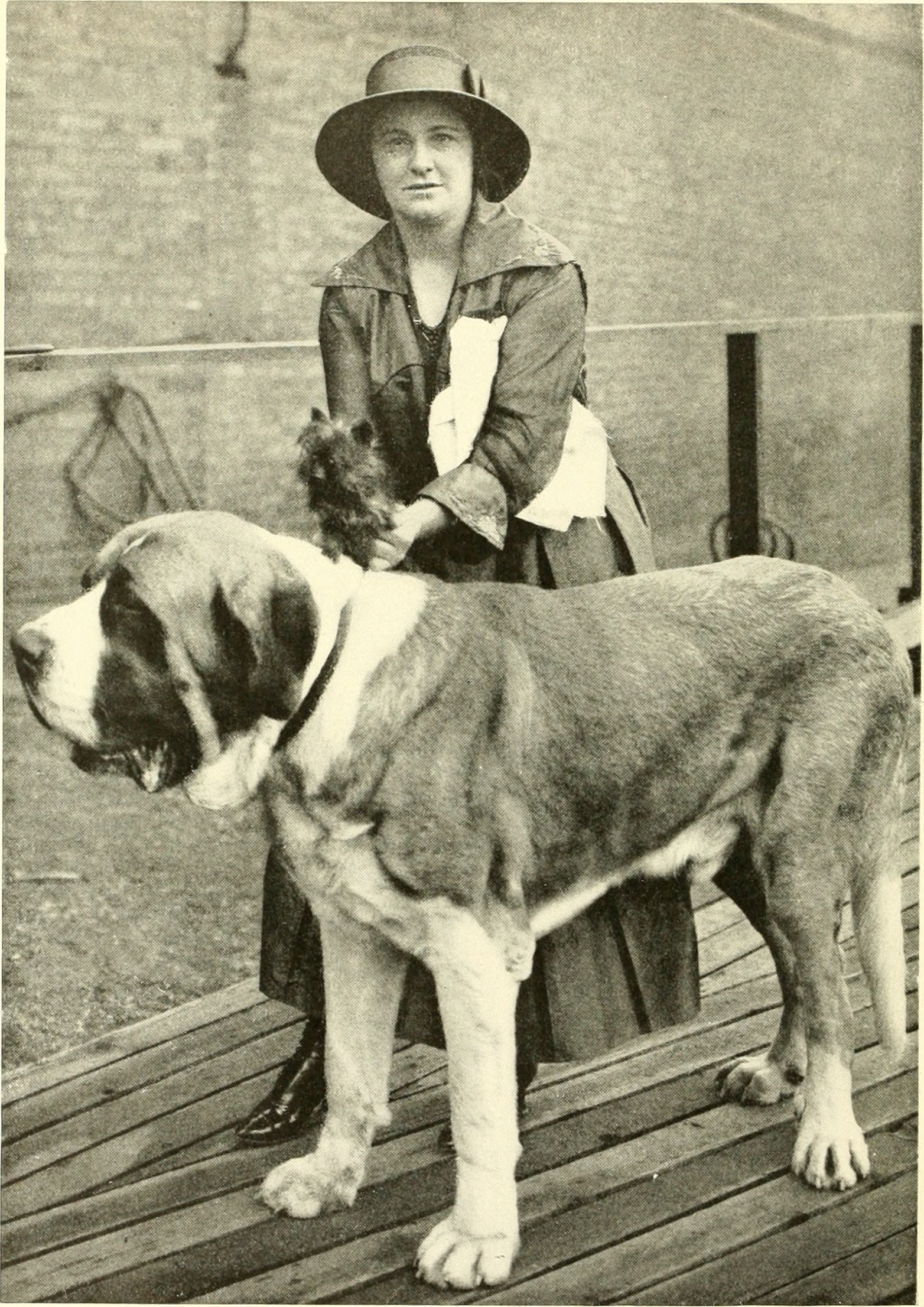 At the dog show. The smallest and the largest exhibits. Photograph by Paul Thompson Title: The book of dogs; an intimate study of mankind's best friend Year: 1919 (1910s) Authors: National Geographic Society (U. S. ); Fuertes, Louis Agassiz, 1874-1927; Baynes, Ernest Harold, 1868-1925 Subjects: Dogs Publisher: Washington, D. C. , The National geographic society Text Appearing Before Image: ' Text Appearing After Image: Pliottigiapii by Paul Thonipiun AT THE DOG snow: THE SMALLEST AND THE LARGEST EXHIBITS The astonishing differences in the various species of the dog family are strikingly de- picted in this picture. Wonderful Tiny, the Yorkshire terrier, in his mistress' hands, weighs only 10 ounces, while Boy Blue, the great St. Bernard, weighs 250 pounds. 14